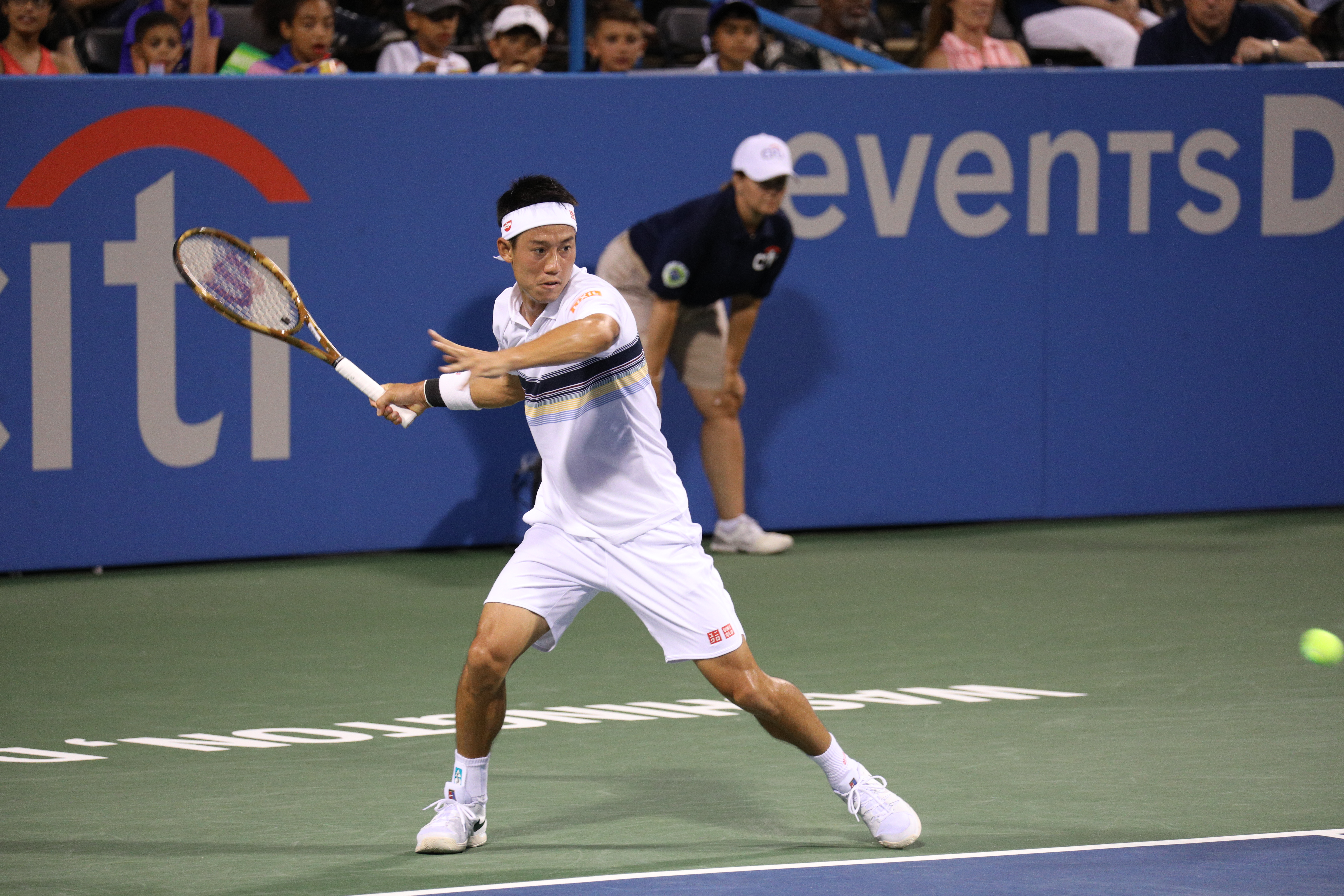 2018 Citi Open